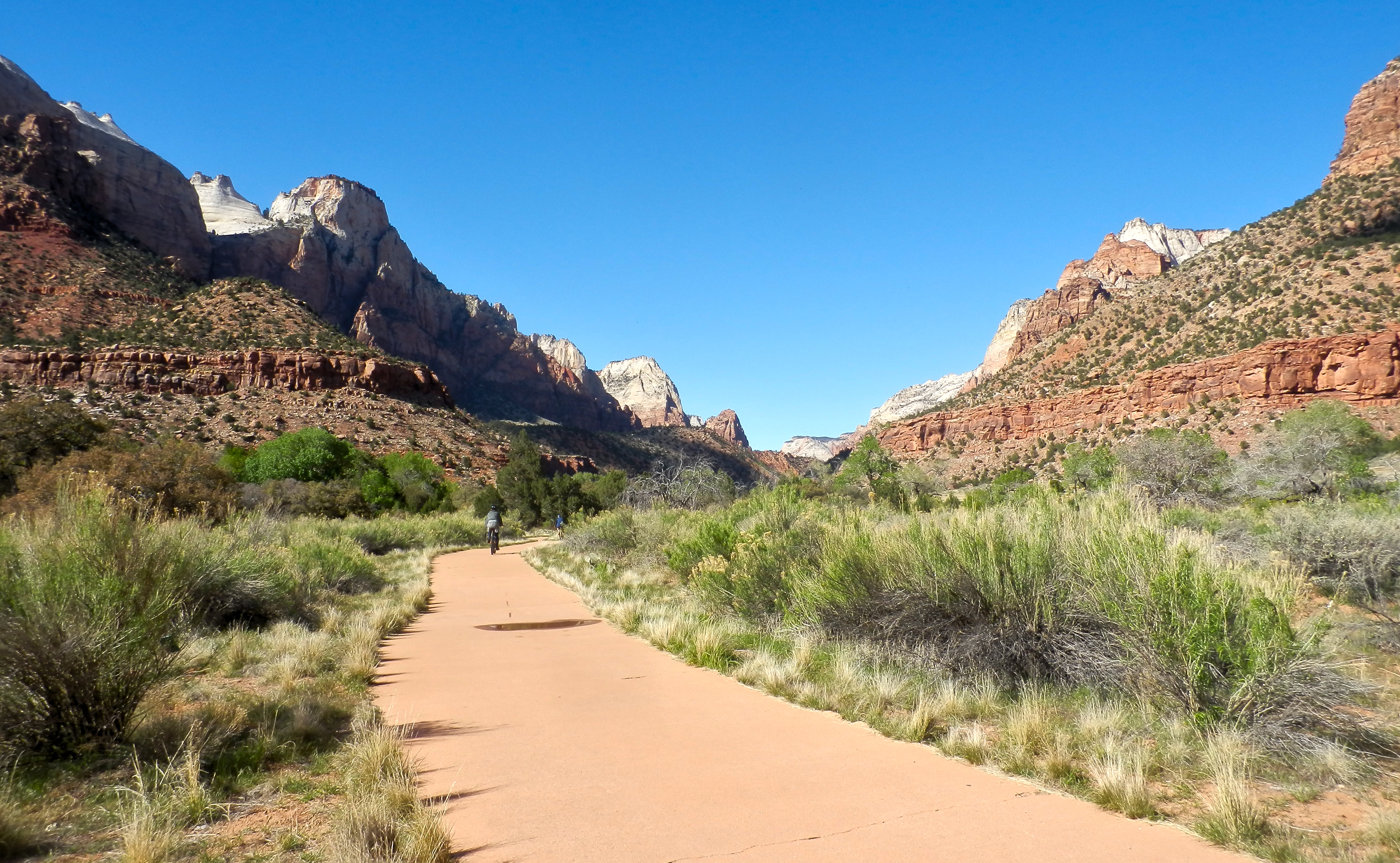 Zion National Park - Pa'rus Trail